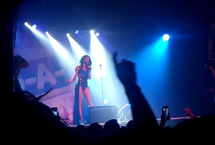 This is a photograph of Austrian drag queen Conchita Wurst performing at G-A-Y Heaven on Saturday 24 May 2014, several weeks after winning Eurovision. It was taken by the uploader.